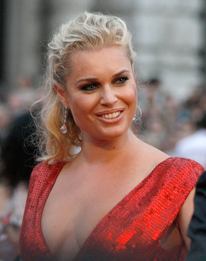 Rebecca Romijn on the red carpet of the Life Ball 2010.